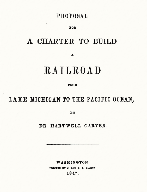 Title page: Carver, Dr. Hartwell "Proposal for a Charter to Build a Railroad from Lake Michigan to the Pacific Ocean" Washington, Gideon, 1847. 38pp.